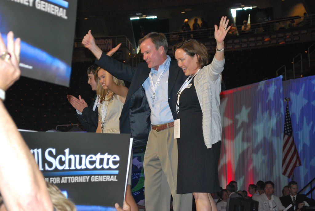 Bill Schuette, Republican candidate for Attorney General 2010 Michigan Republican State Convention